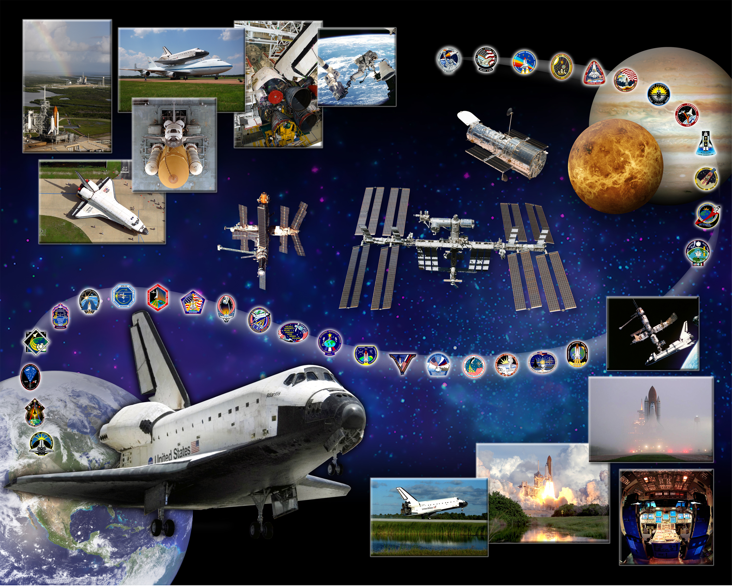 This orbiter tribute of space shuttle Atlantis, or OV-104, hangs in Firing Room 4 of the Launch Control Center at NASA's Kennedy Space Center in Florida. In the lower-left corner, it features Atlantis soaring above Earth and threaded through the design are the mission patches for each of Atlantis’ flights. Atlantis' accomplishments include seven missions to the Russian space station Mir and several assembly, construction and resupply missions to the International Space Station. Atlantis also flew the last Hubble Space Telescope servicing mission on STS-125. In the tribute, the planet Venus represents the Magellan probe being deployed during STS-30, and Jupiter represents the Galileo probe being deployed during STS-34. The inset photos illustrate various aspects of shuttle processing as well as significant achievements, such as the glass cockpit and the first shuttle docking with Mir during STS-71. The inset photo in the upper-left corner shows a rainbow over Atlantis on Launch Pad 39A and shuttle Endeavour on Launch Pad 39B at Kennedy. Endeavour was the assigned vehicle had Atlantis’ STS-125 mission needed rescue, and this was the last time both launch pads were occupied at the same time. The stars in the background represent the many people who have worked with Atlantis and their contributions to the vehicle’s success.